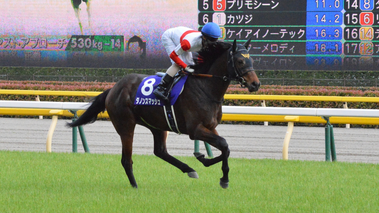 Japanese race horse Danon Smash at Tokyo racecourse. Tokyo (JPN) 6 May 2018 NHK Mile Cup (Grade 1) (3yo Colts & Fillies) (Turf) 1m Firm RankHorse NameOddsAgeWgtJockeyTrainer1stKeiai Nautique (JPN)118/10C39-0Yusuke FujiokaOsamu Hirata7thDanon Smash (JPN)74/10C39-0Yuichi KitamuraTakayuki YasudaOthers are omitted. (18 horses entered in a race.)